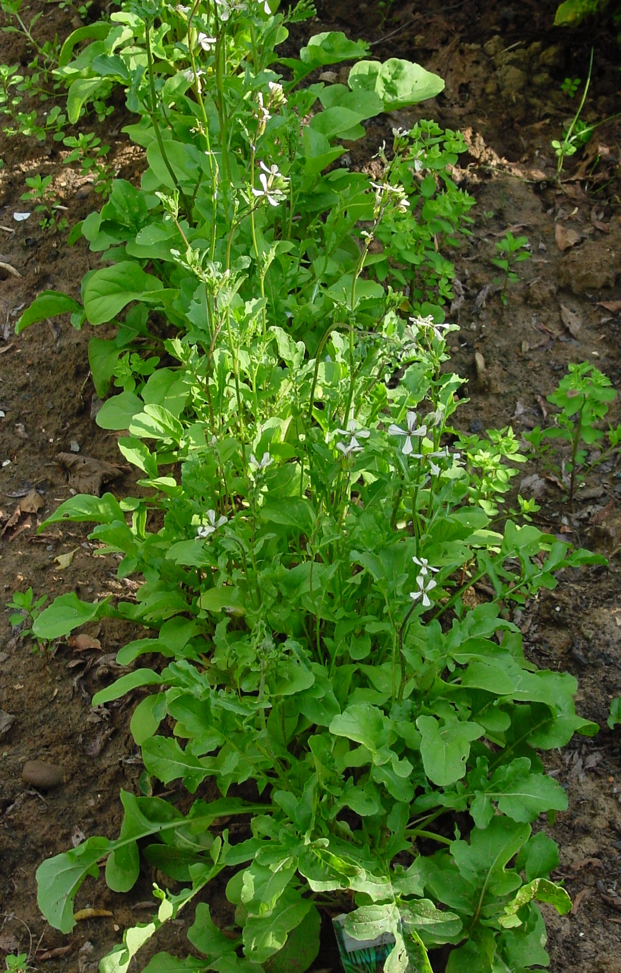 Eruca sativa, flowering plants, Untereisesheim, Germany